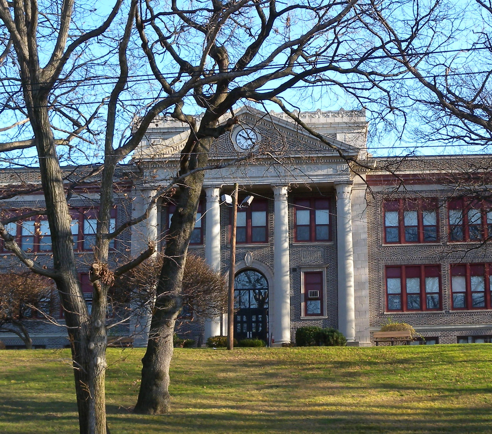 Looking east at Cliffside Park High School on a sunny late autumn early afternoon.